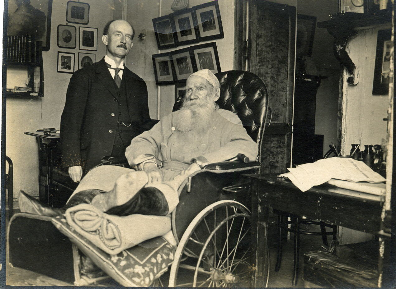 Henry George Jr. and Leo Tolstoy